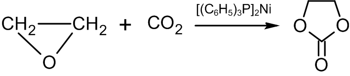 Ethylene carbonate synthesis